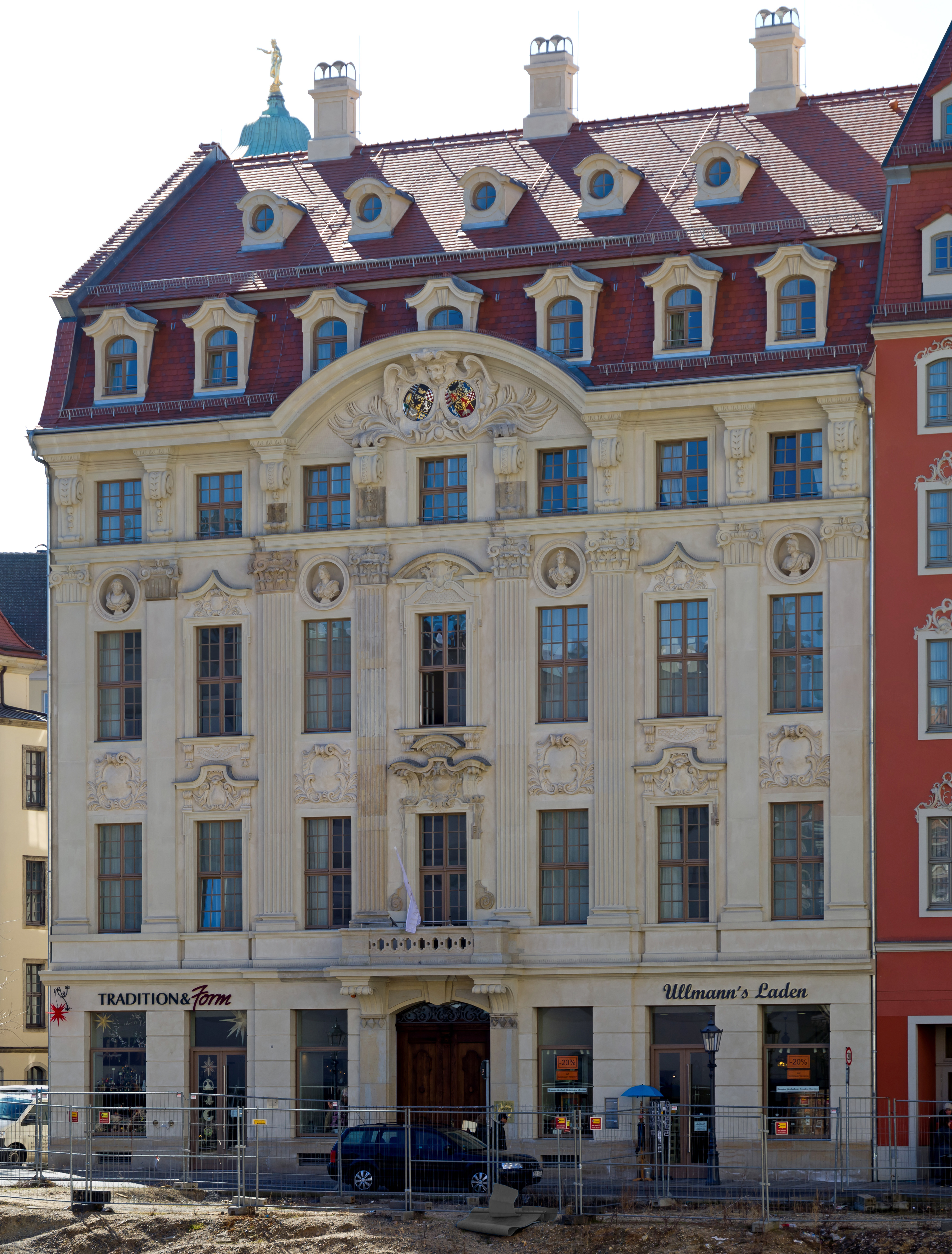 British Hotel, Dresden